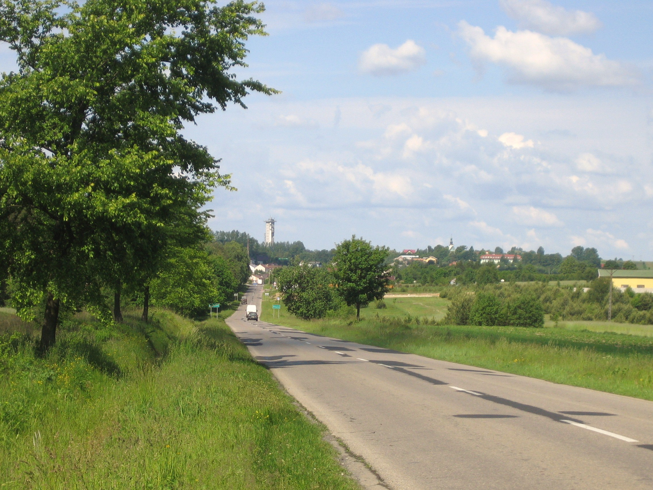 entrance to Niegowa, Poland from the East; in the distance: communications tower, St. Nicholas' Church, school building (red roof with windows)